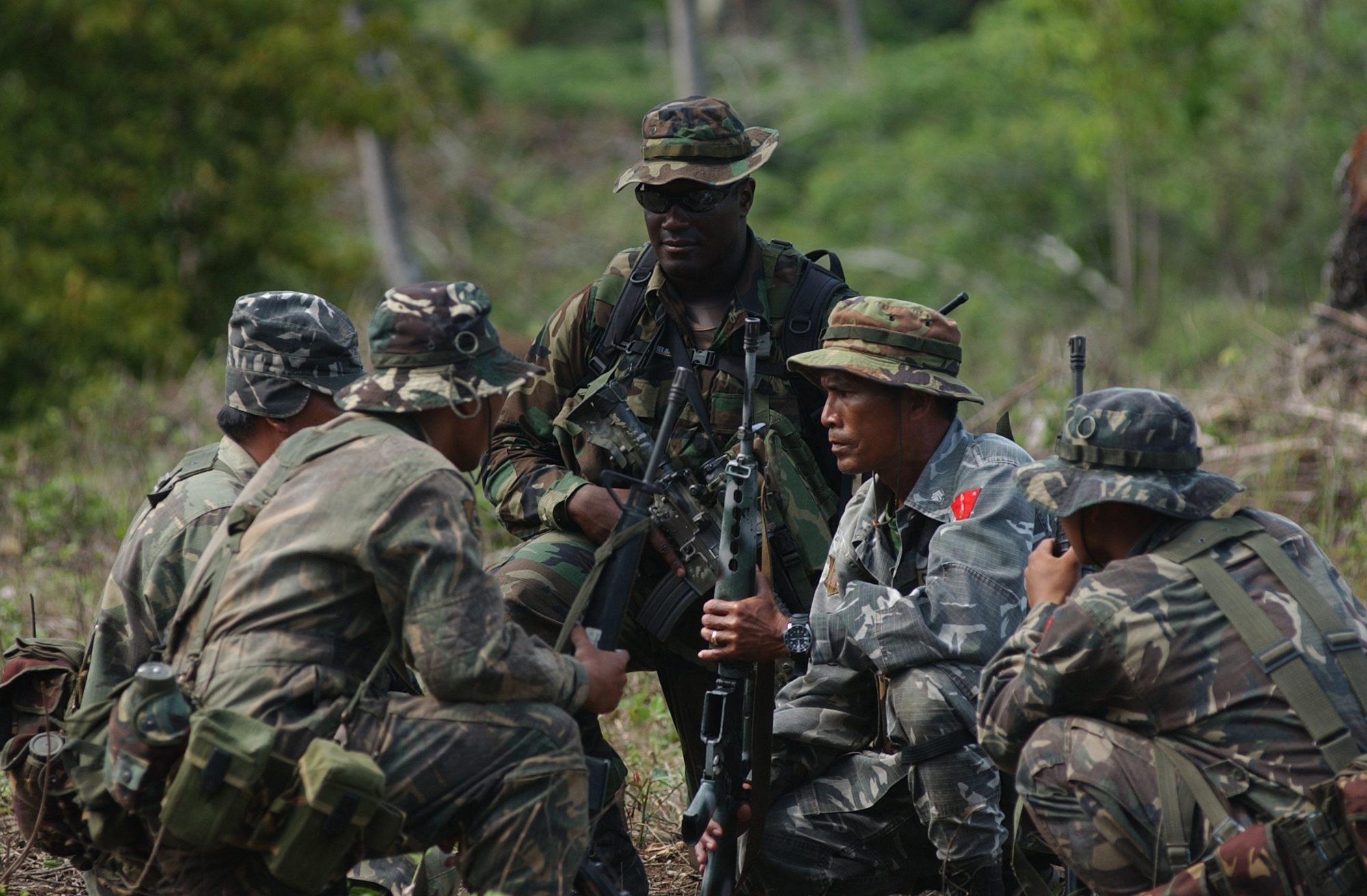 A Special Forces Soldier conducts Security Assistance Training for members of the Philippine Army's 1st Infantry (TABAK) Division on March 20, 2003.